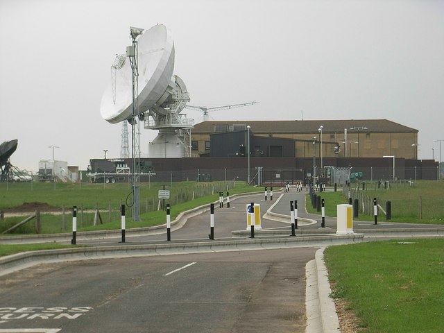 RAF Croughton Looking from the entrance on the A43. (Bet you get a good picture with that!)